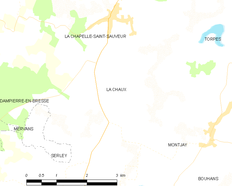 Map of French municipality